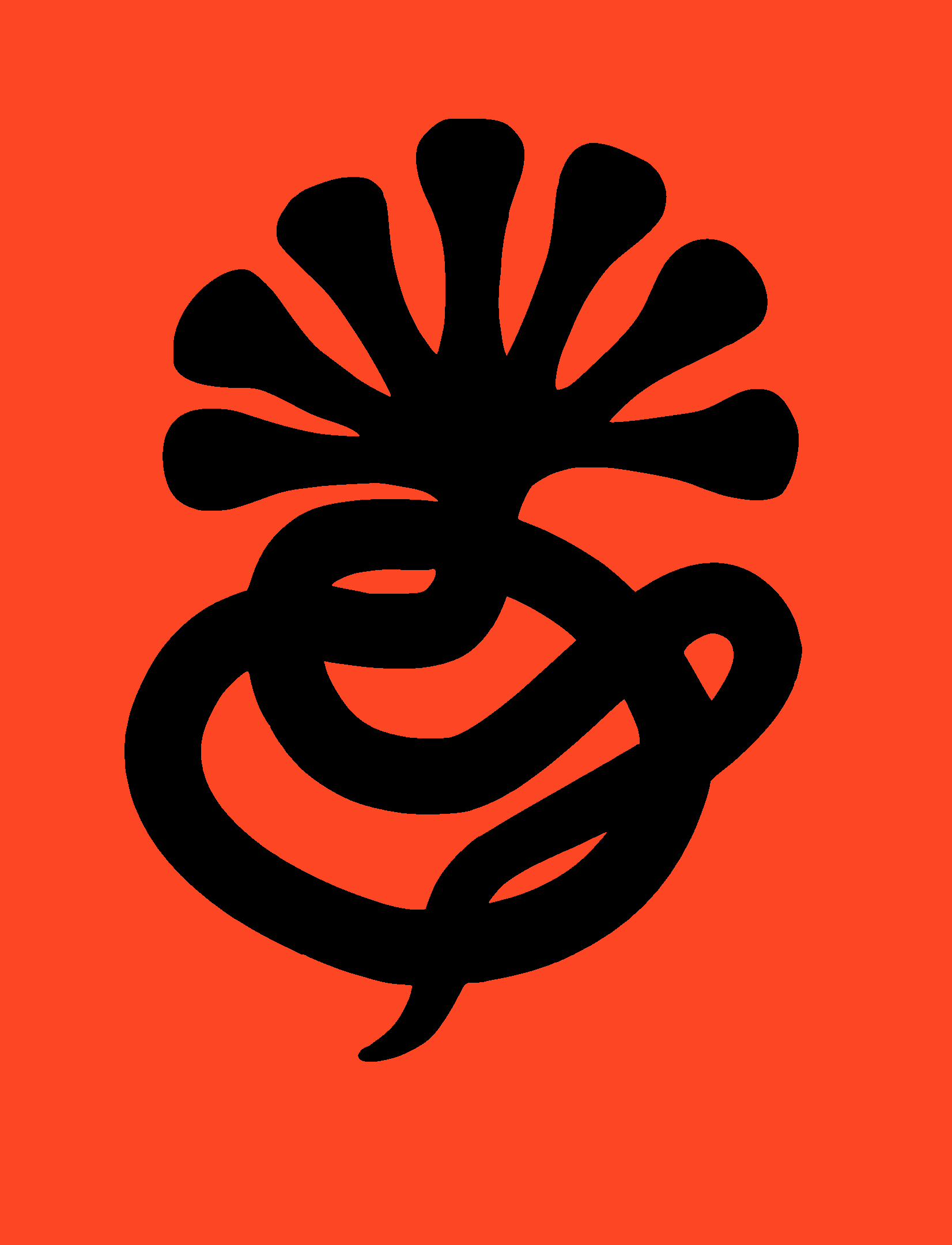 Digital recreation of the flag/banner of the "Symbionese Liberation Army", as it appeared behind Patricia Hearst in a notorious publicity photograph. The symbol on the flag is the "Seven headed Cobra", as designed by SLA leader Donald DeFreeze.